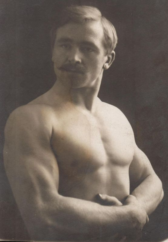 Jean Baud, Modell of Rodins "The Thinker"